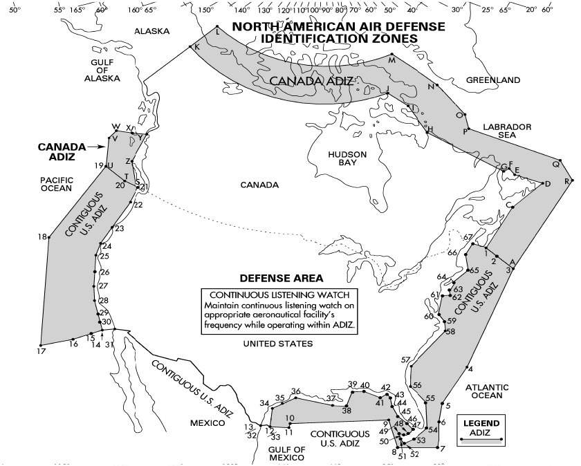 ADIZ boundaries from IFR Supplement, United States, 11 Feb 2010, published by Department of Defense, National Geospatial Intelligence Agency.